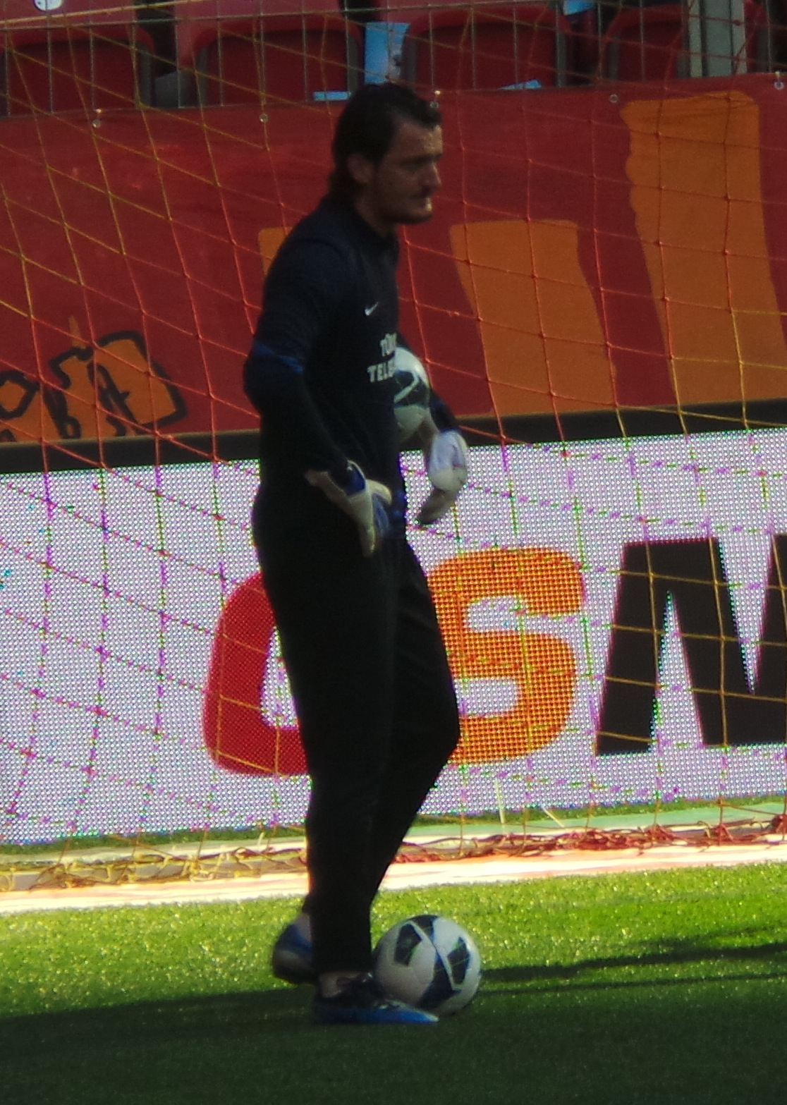 Zeki Ayvas @TT Arena